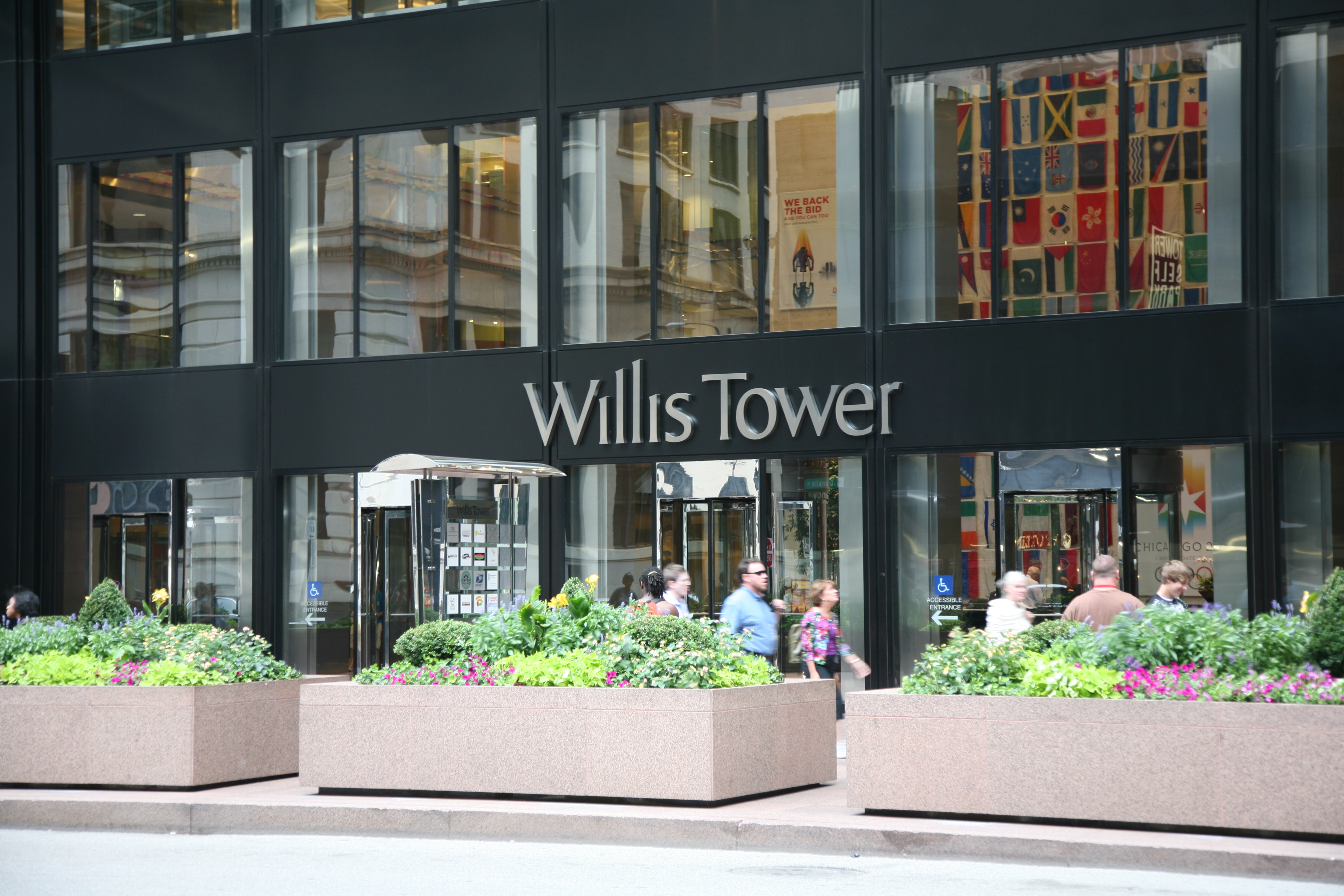 East entrance of Willis Tower in Chicago (formerly known as Sears Tower)